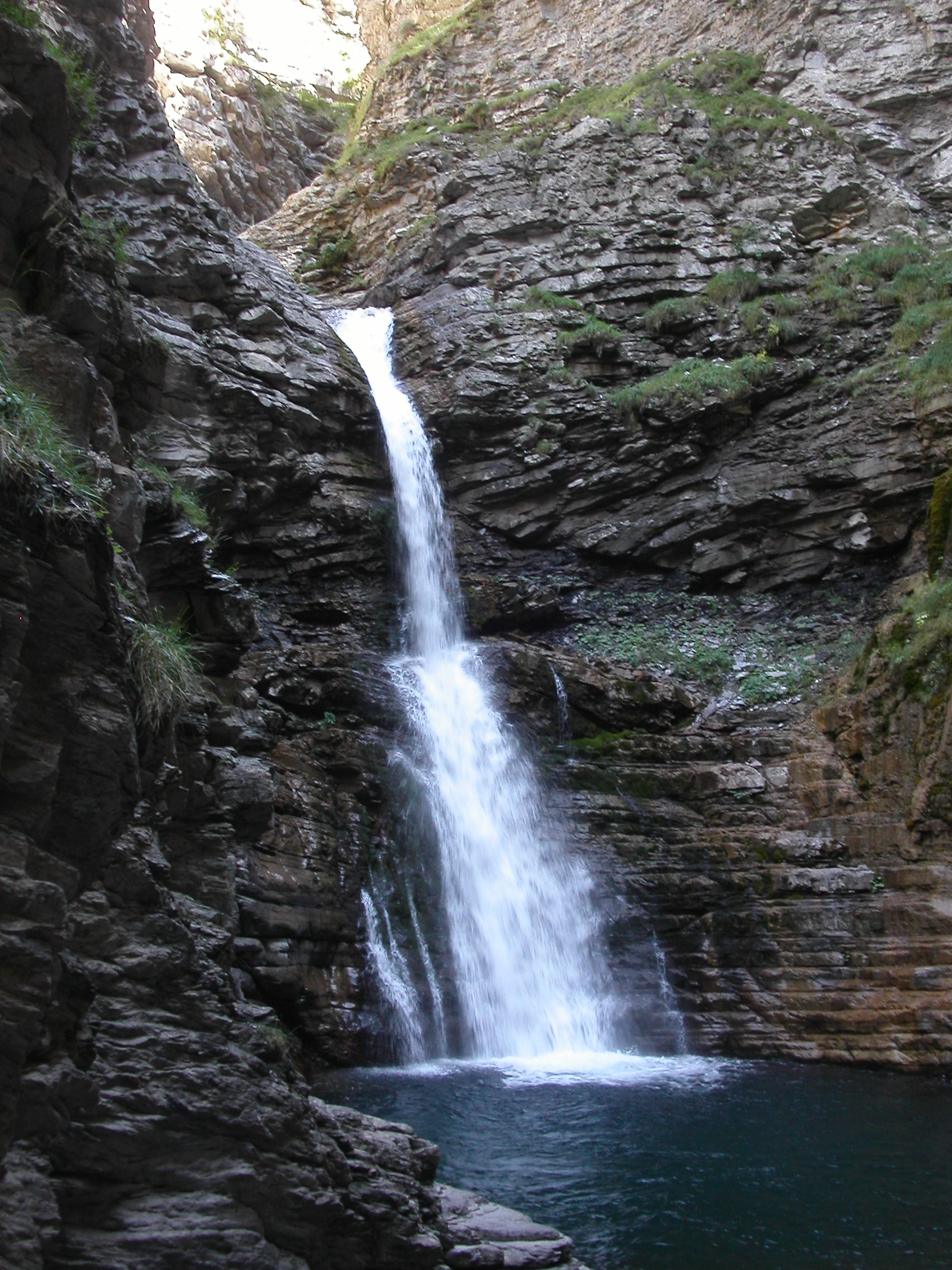 Cascade de la lance, Colmars, France, Département Alpes-de-Haute-Provence